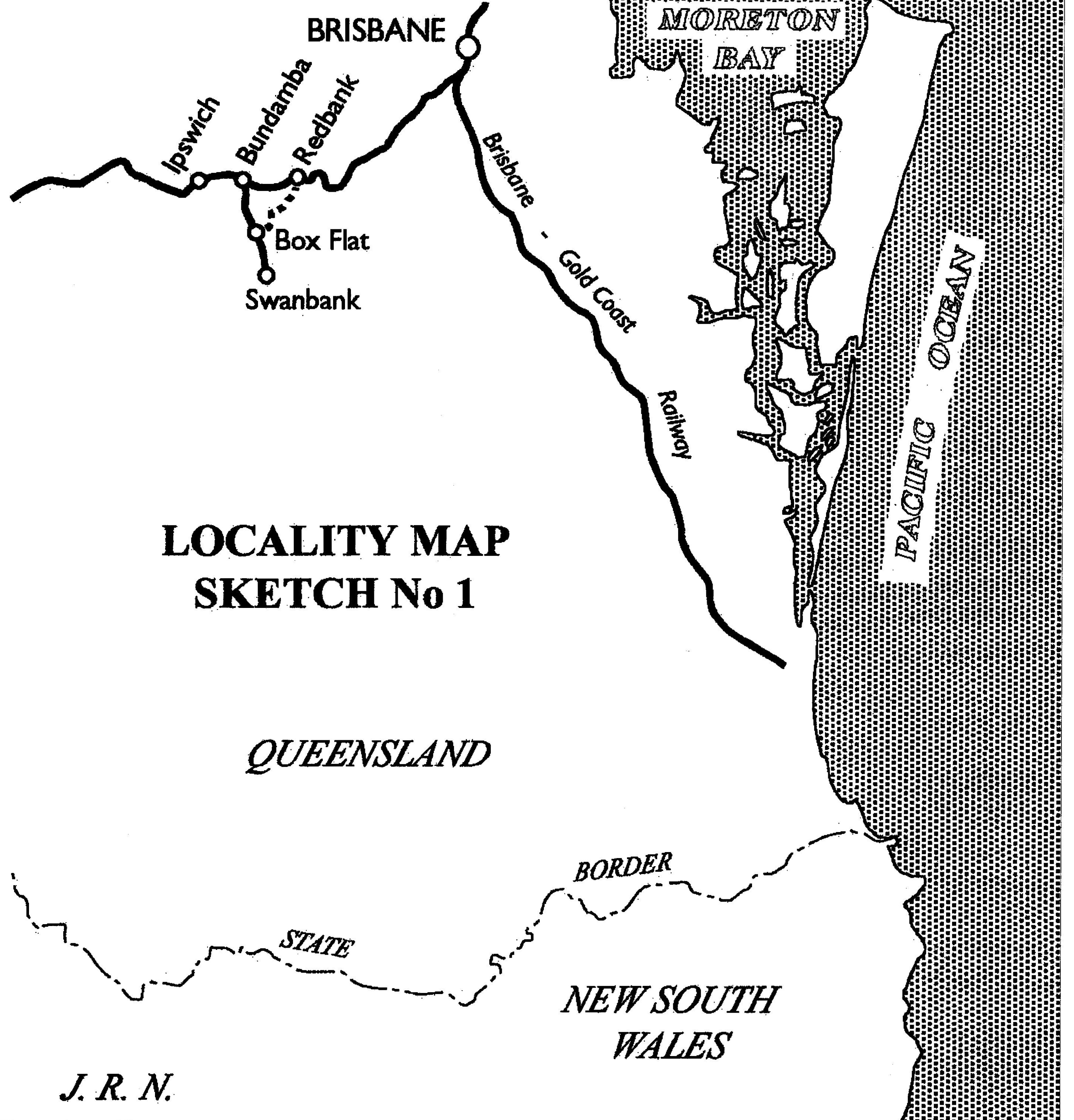 Sketch Map of Redbank-Bundamba Loop Line and The Swanbank Extension. Showing the location with relevance to Brisbane.